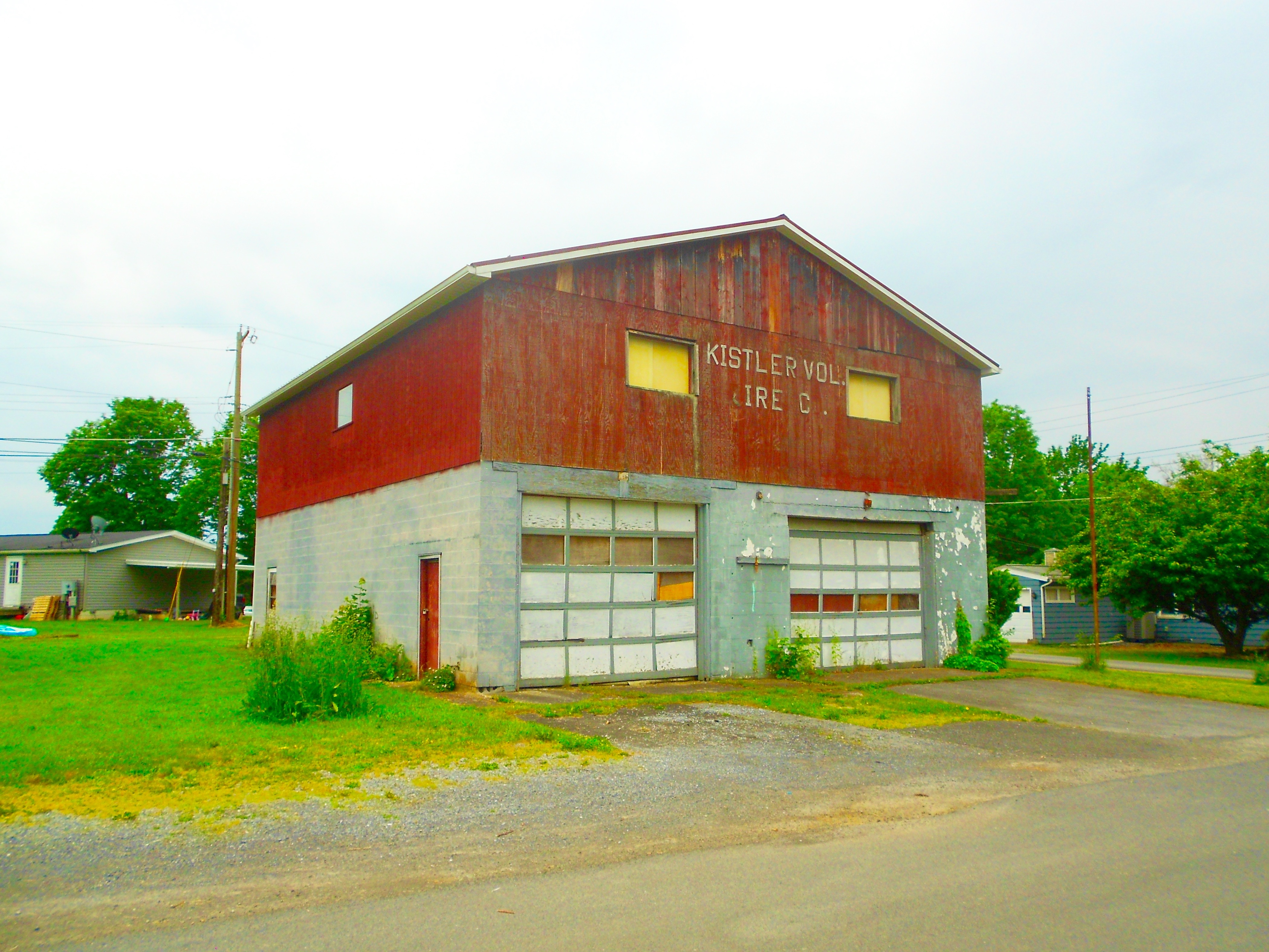 The Kistler Volunteer Fire Company in Kistler, Mifflin County, Pennsylvania (or what's left of it!)